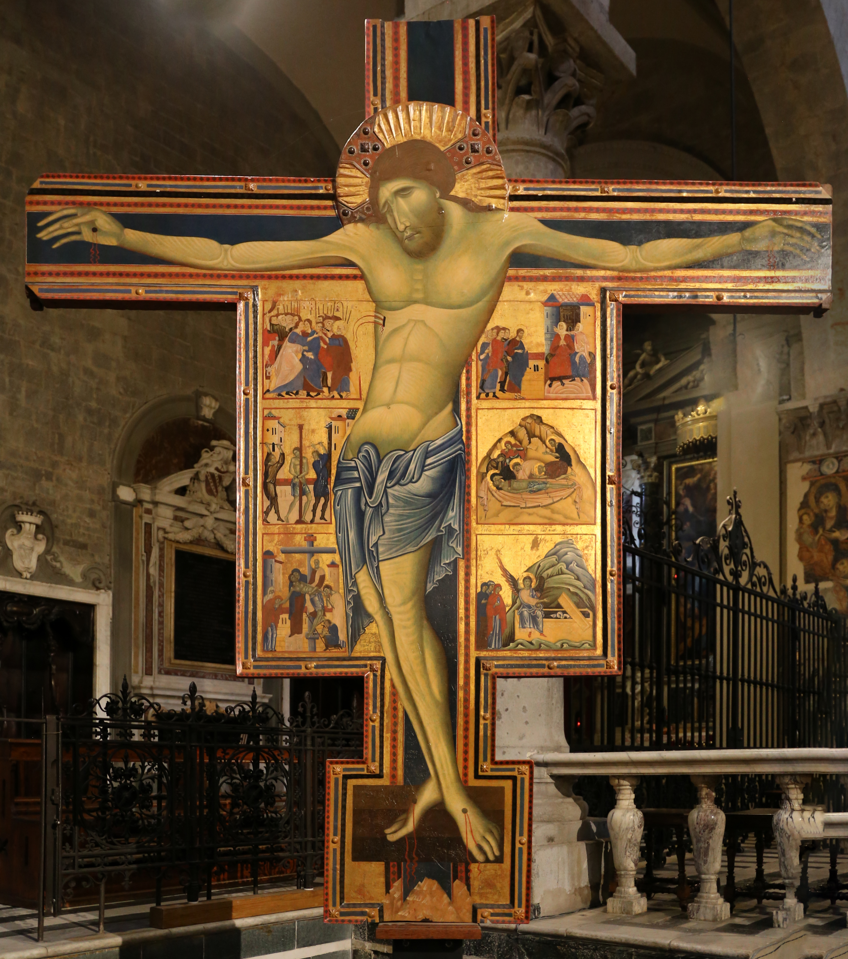 Duomo (Pistoia) - Interior